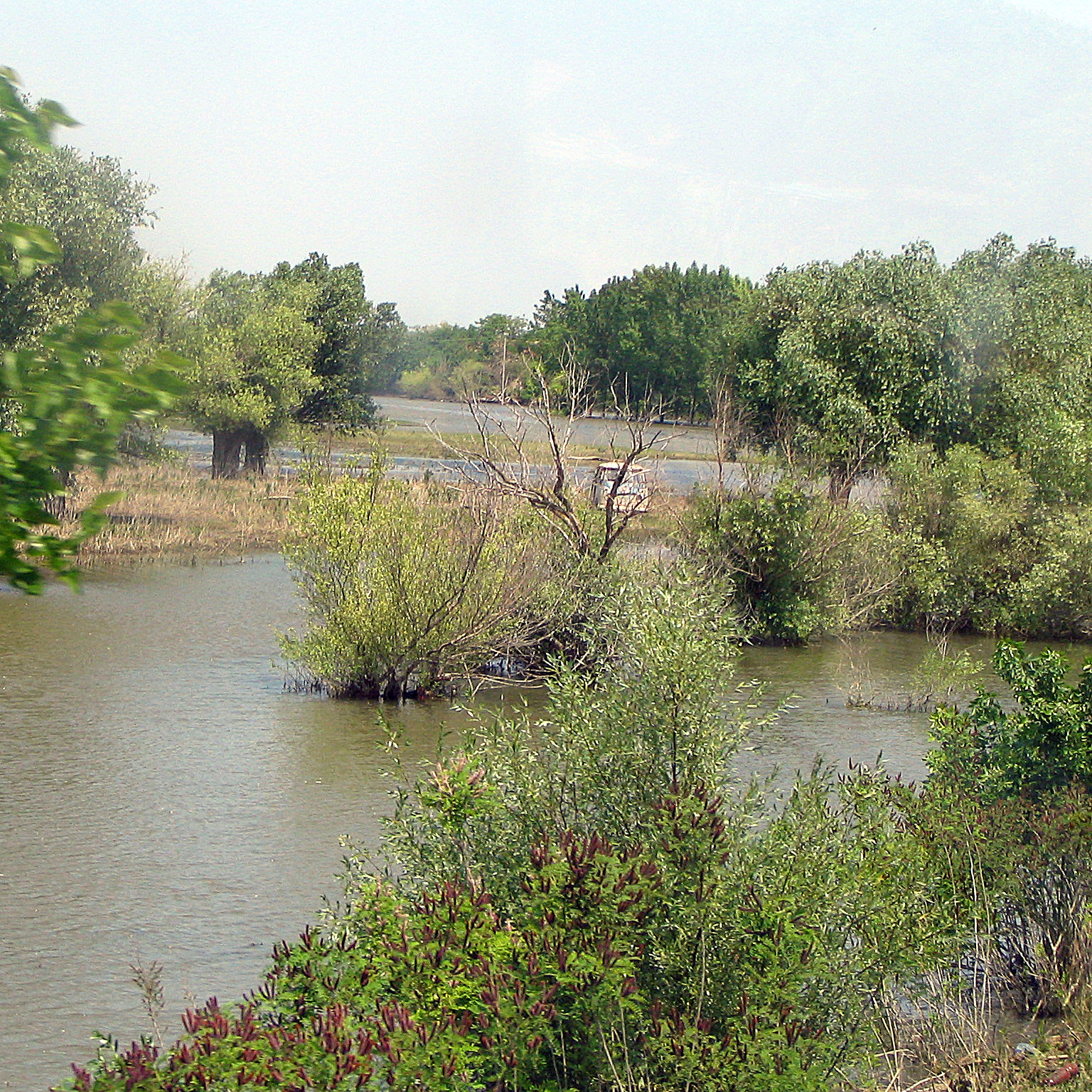 Flood in Banat, May 2005 (Serbia)